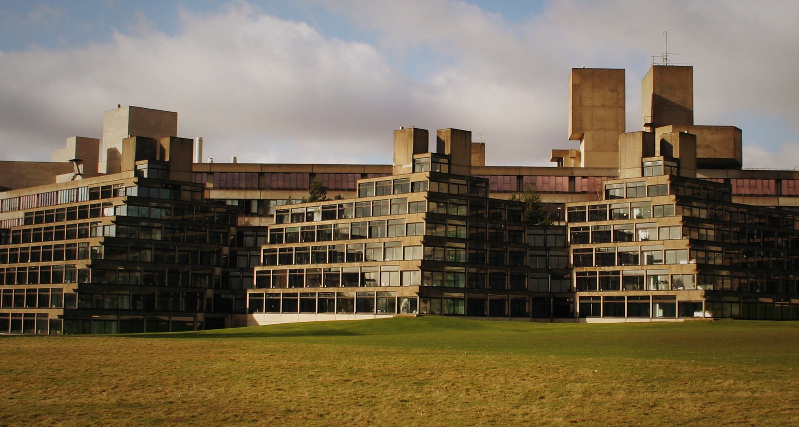 University of East Anglia